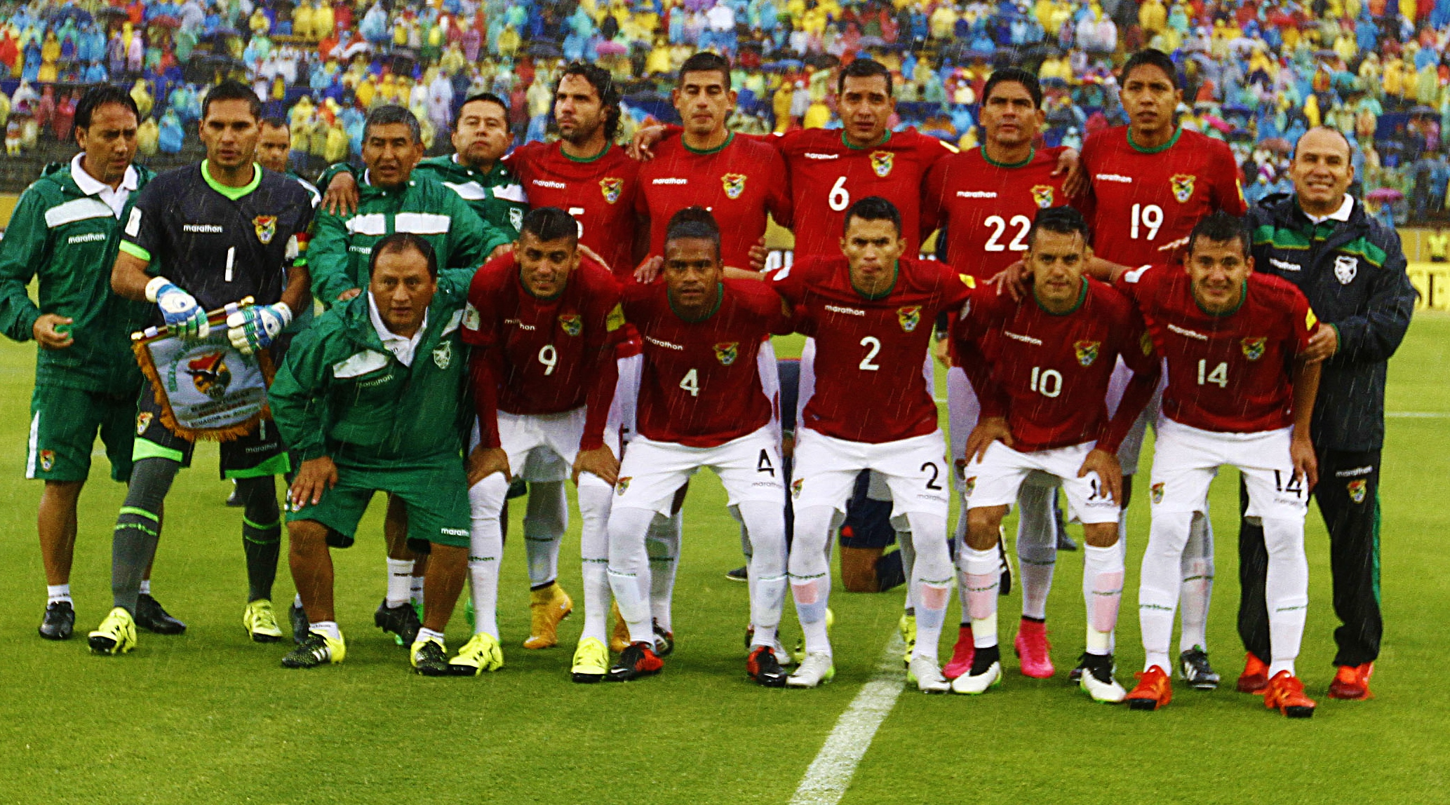 Bolivia national football team 12.10.2015